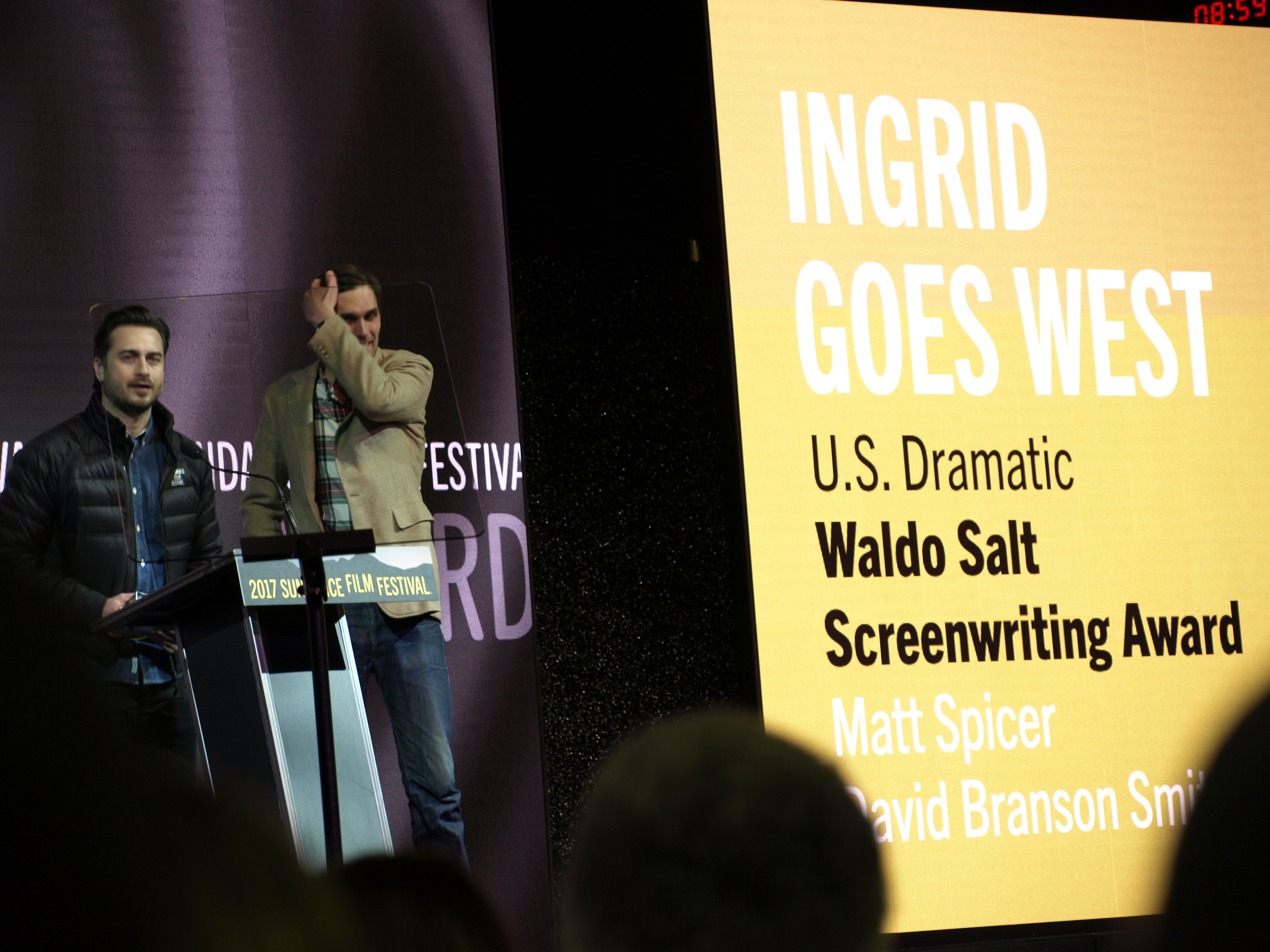 "Ingrid Goes West" U.S. Dramatic Waldo Salt Screenwriting Award at Sundance 2017, Park City UT